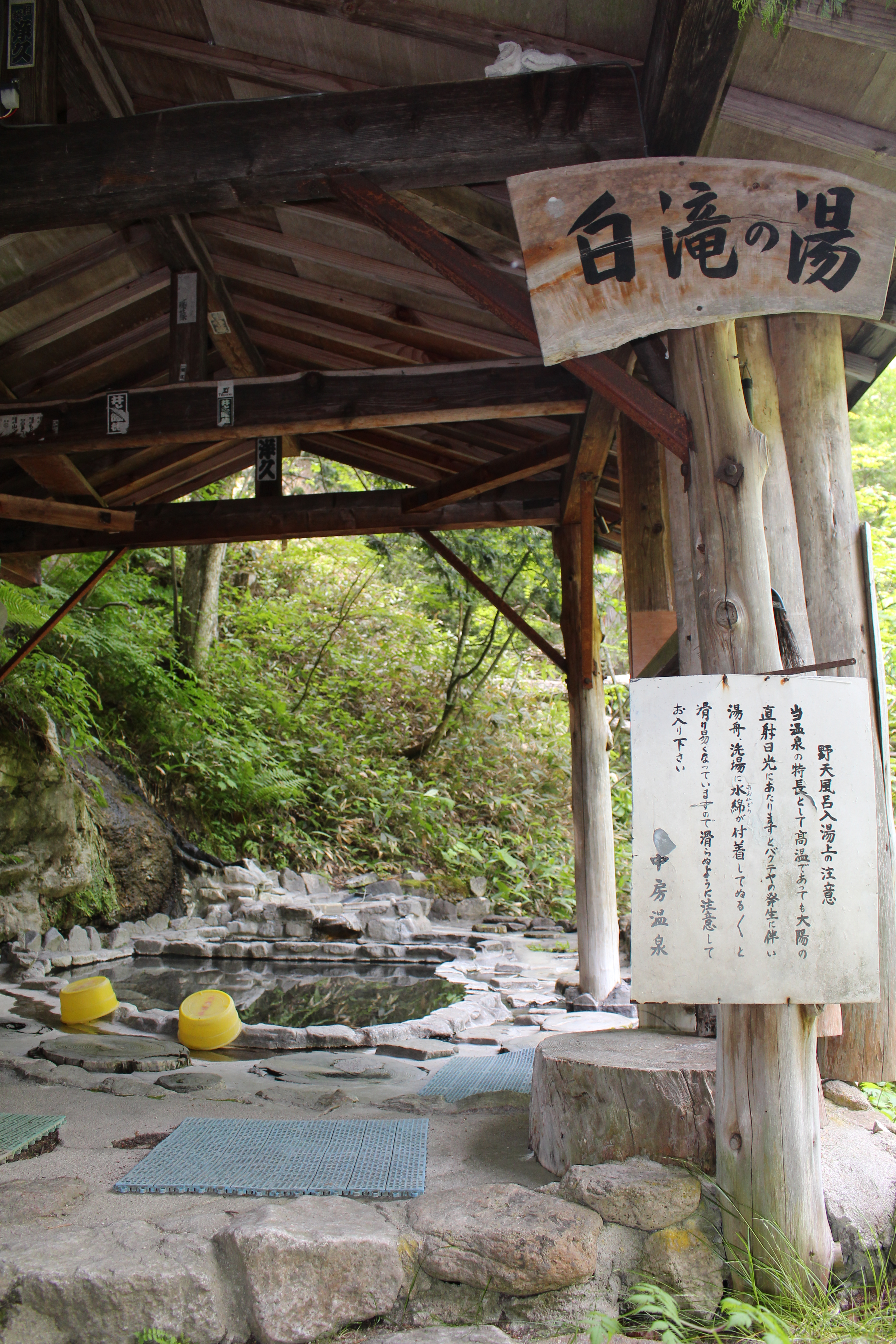 Shiratakinoyu of Nakabusa Onsen, in Azumino, Nagano prefecture, Japan.